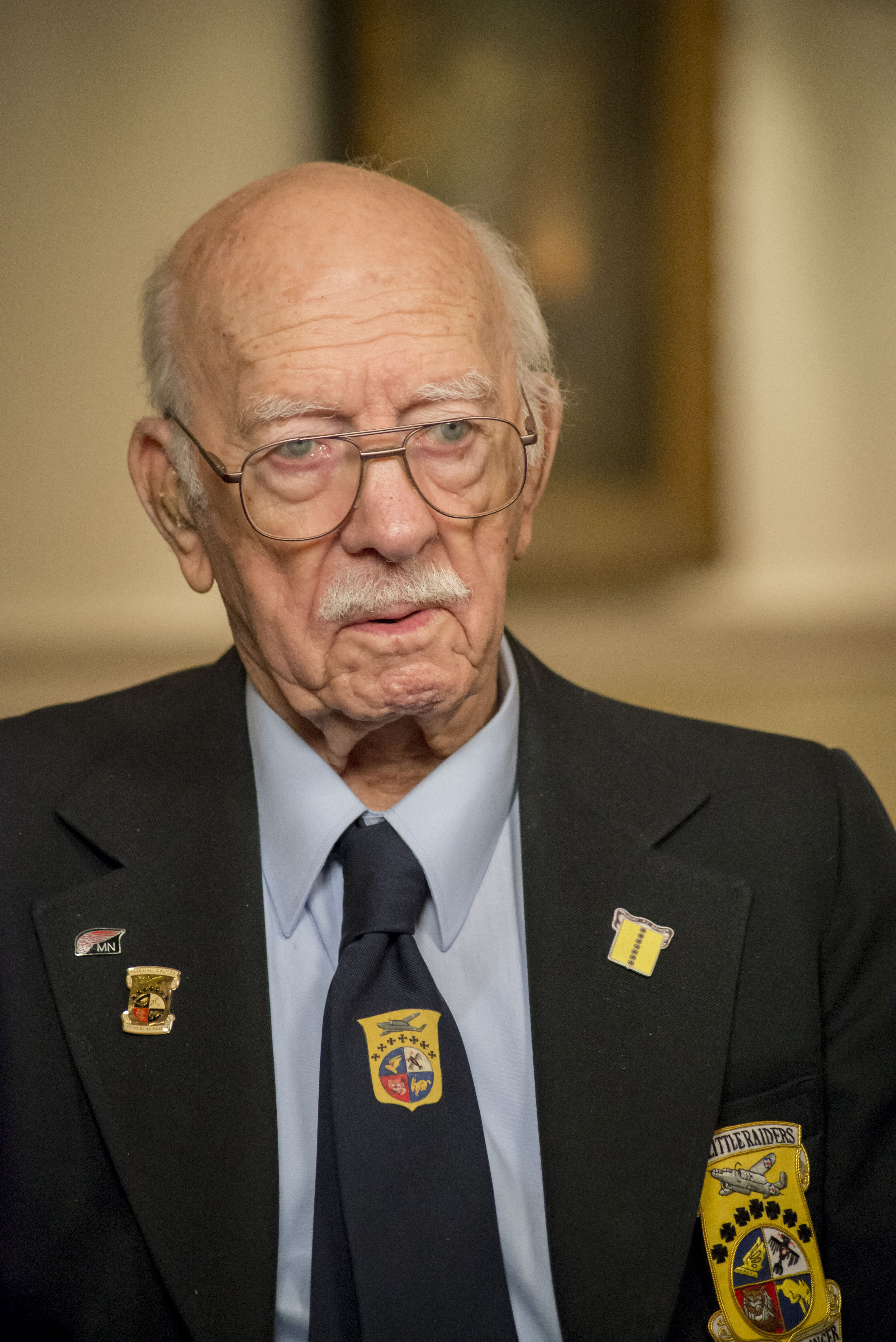 Retired Air Force Lt. Col. Ed Saylor, one of four surviving members of Doolittle's Raid, answers question about the raid during a luncheon in honor of the event at the Army Navy Club in Washington. Doolittle's Raid was an April 1942 air attack on Japan, which launched from the aircraft carrier Hornet and was led by Army Lt. Col. James H. Doolittle. (U.S. Navy photo by Mass Communication Specialist 1st Class Tim Comerford/Released)